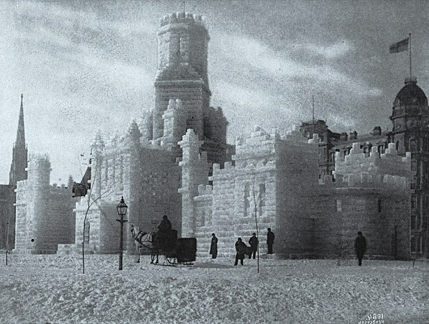 Print, Ice palace, Winter Carnival, Montreal, QC, 1884, Alexander Henderson, Silver salts on paper - Halftone, 20 x 25 cm